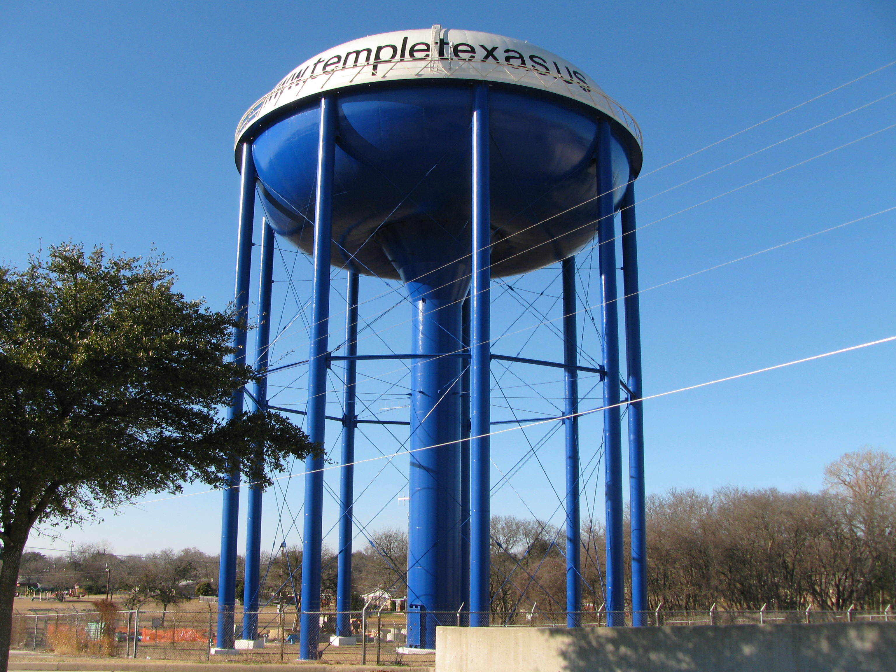 A water tower in Temple, Texas